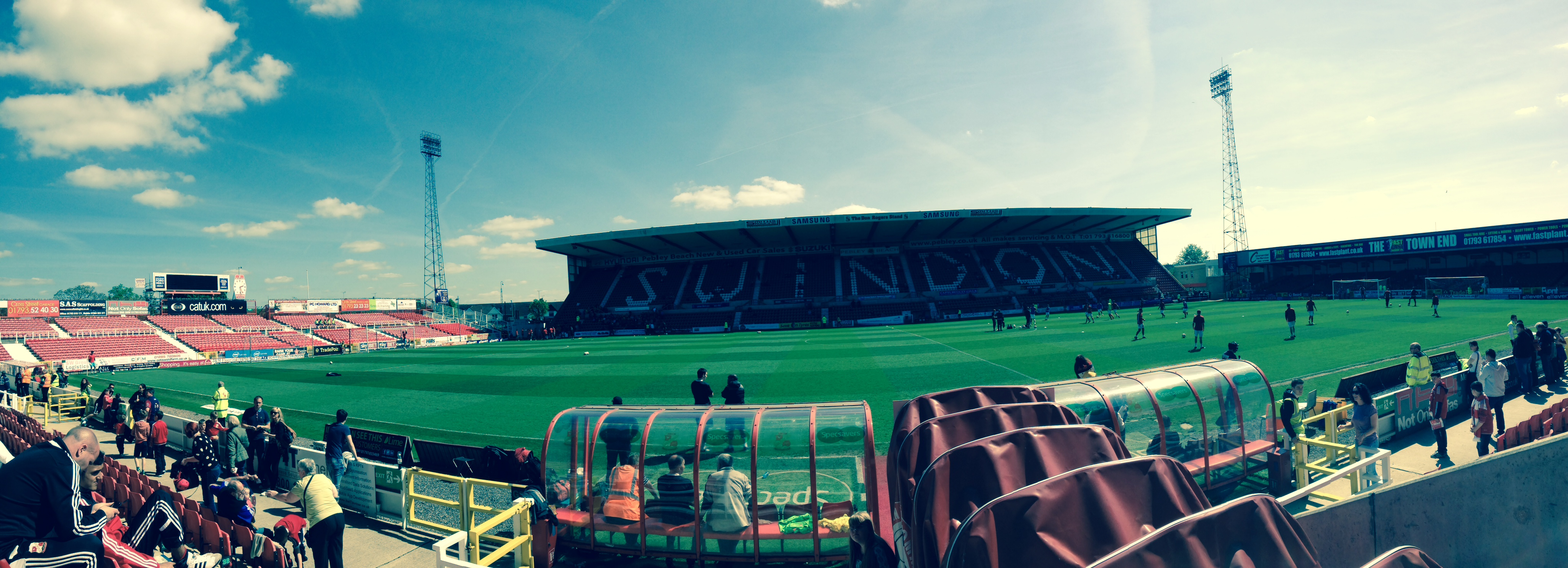 Taken before Swindon Town vs. Rotherham United